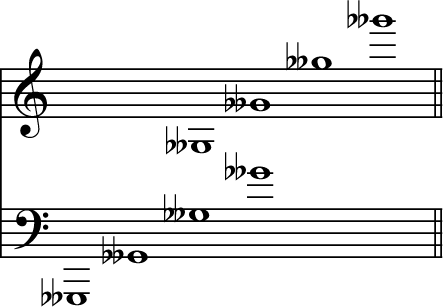 Notes, G Double Flat